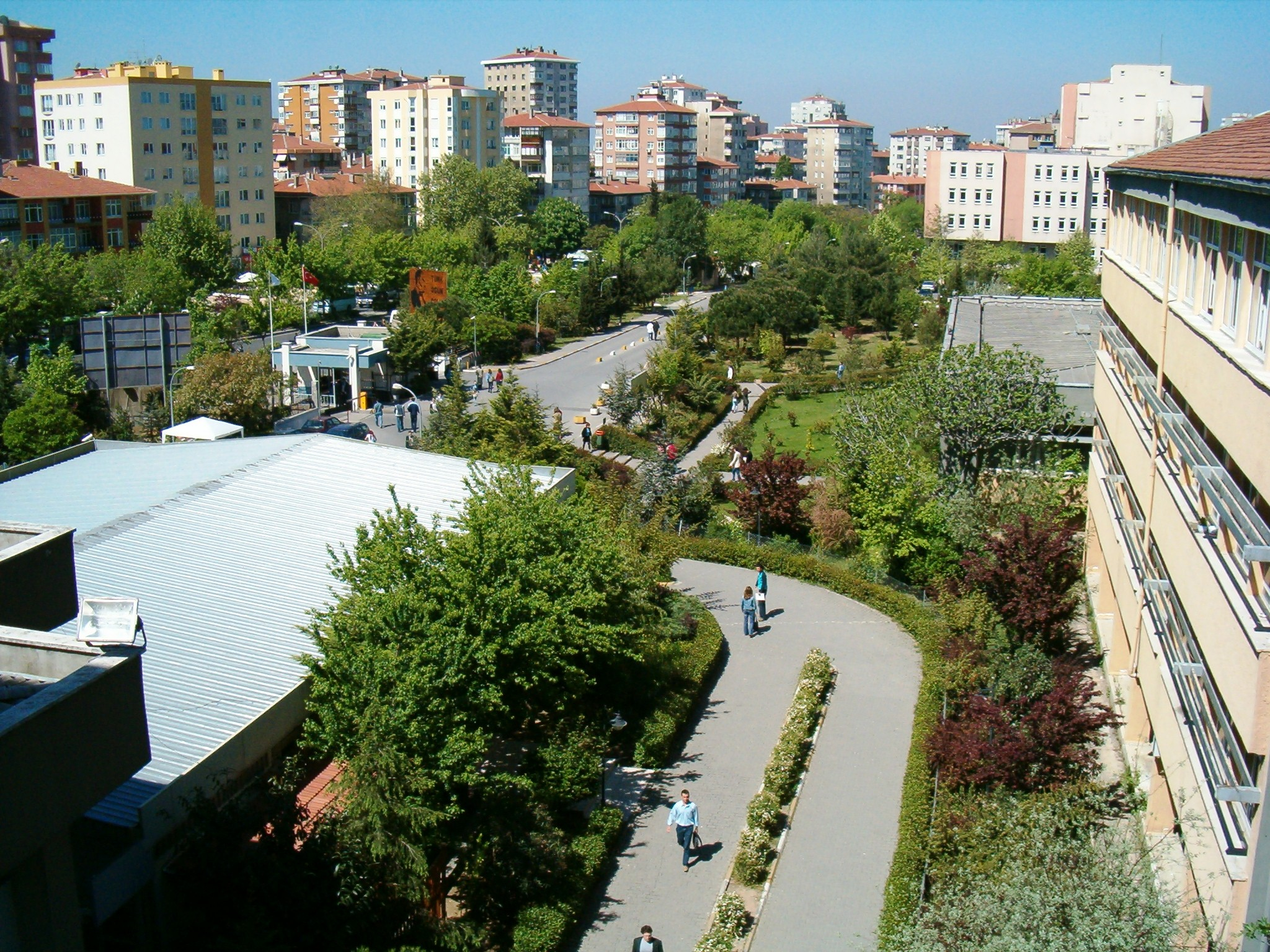 Marmara University Goztepe Campus